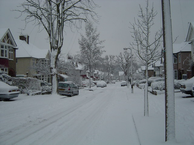 Cassiobury Park Avenue, Watford Looking down the hill from the junction with Swiss Avenue towards Gade Avenue after a night of heavy snow. Photograph taken in the early morning while the snow was still falling.